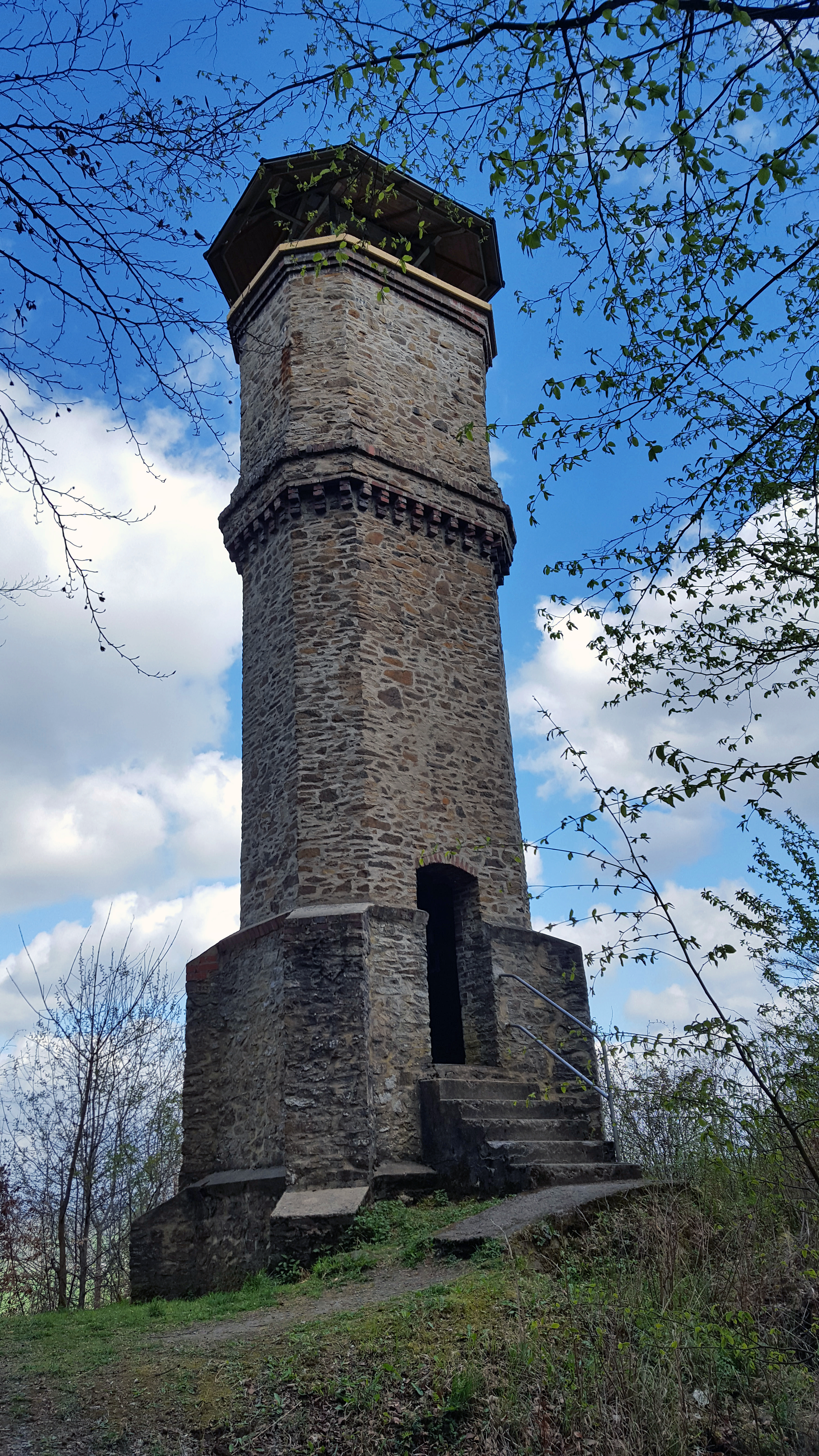 Eduardsturm Haiger